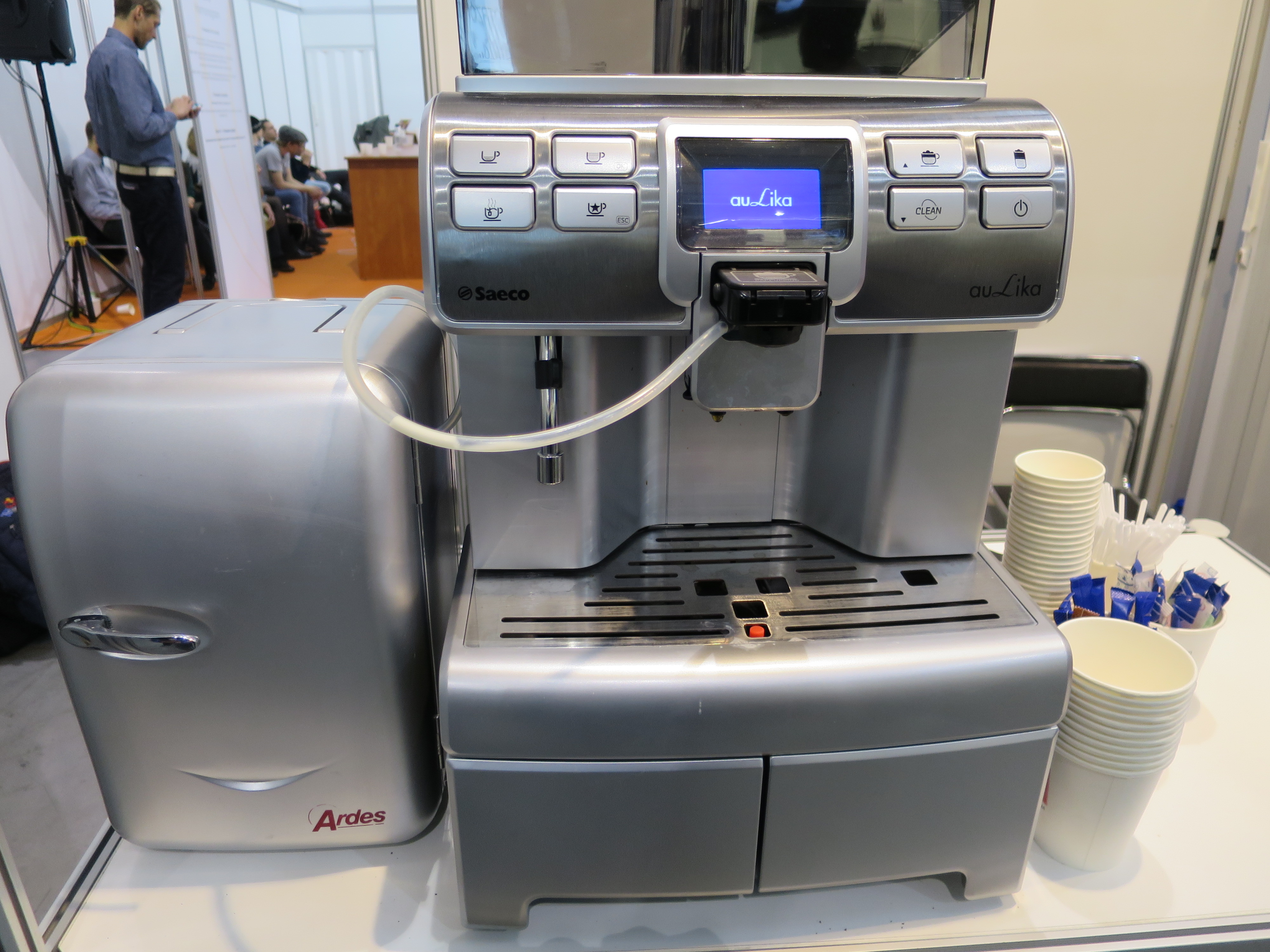 Ekspres Saeco AuLika The making of this document was supported by Wikimedia Polska Association, within Wikigrant no. WG 2015-48.